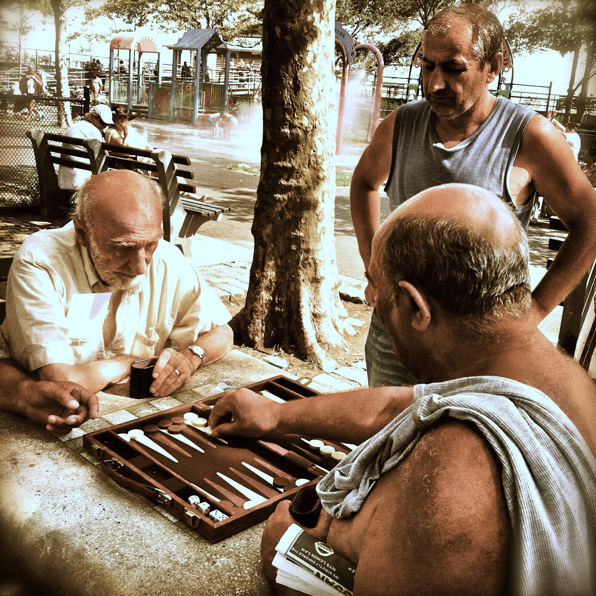 Backgammon players in Second Street Park, Brighton Beach, Brooklyn NY, 2012.